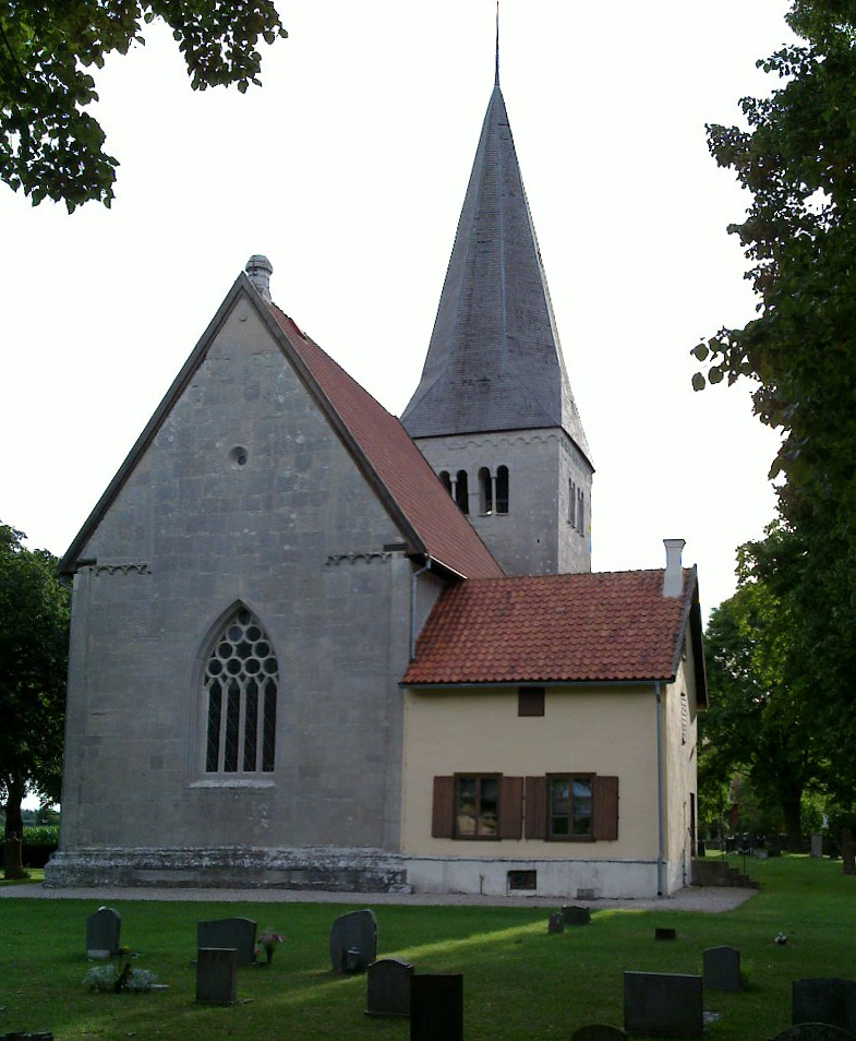 Church of Follingbo, Gotland viewed from the east